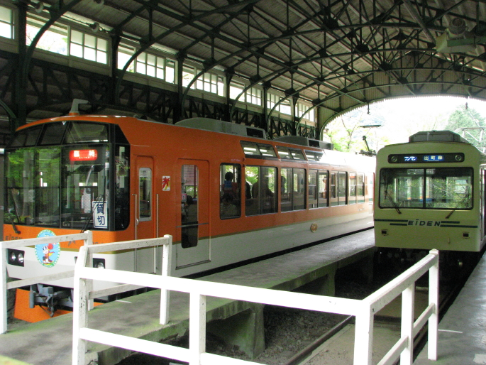 Eizan Electric Railway Type Deo 900 at Yase-Hieizanguchi Station as a chartered train. This type of train does not go to the station in ordinal operation.